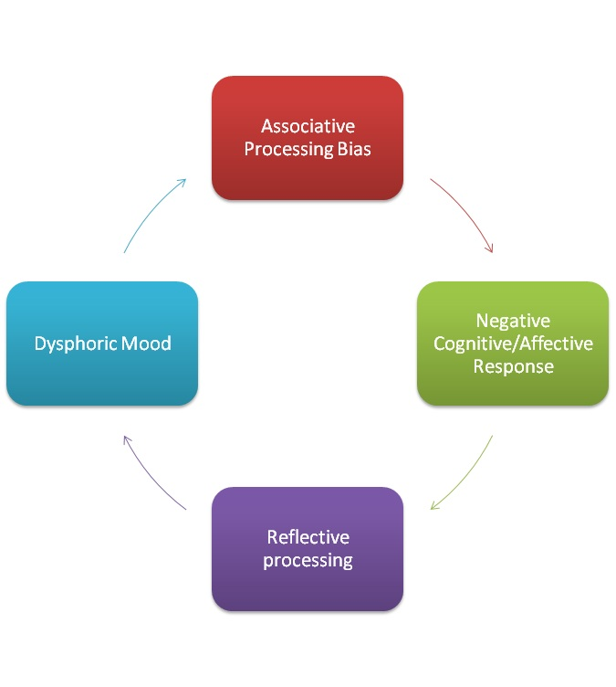 This image is created by me to explain the dual process model for cognitive vulnerability into depression.